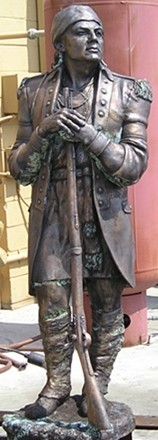 Chief Piomingo Statue, most likely Wm d'Blainville Colbert who was Chief through marriage to Dorothy "Mimey" Colbert, the eldest daughter of the Chickasaw Chief circa 1720's